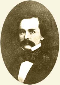 Portrait of Lt. Col. Edward Jenner Steptoe